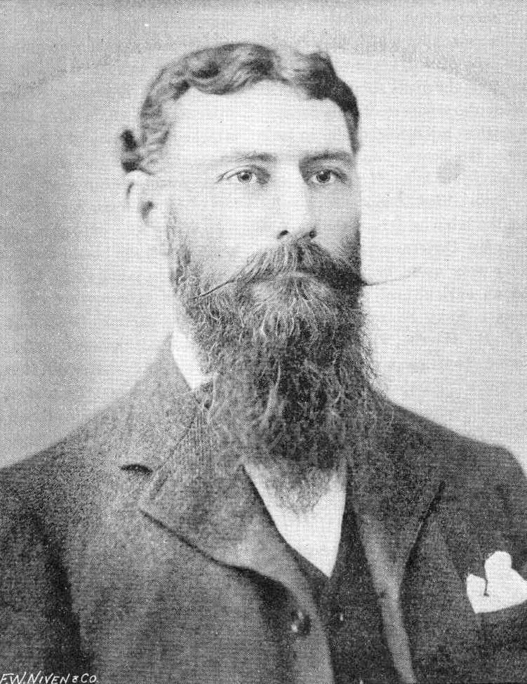 Scan from original